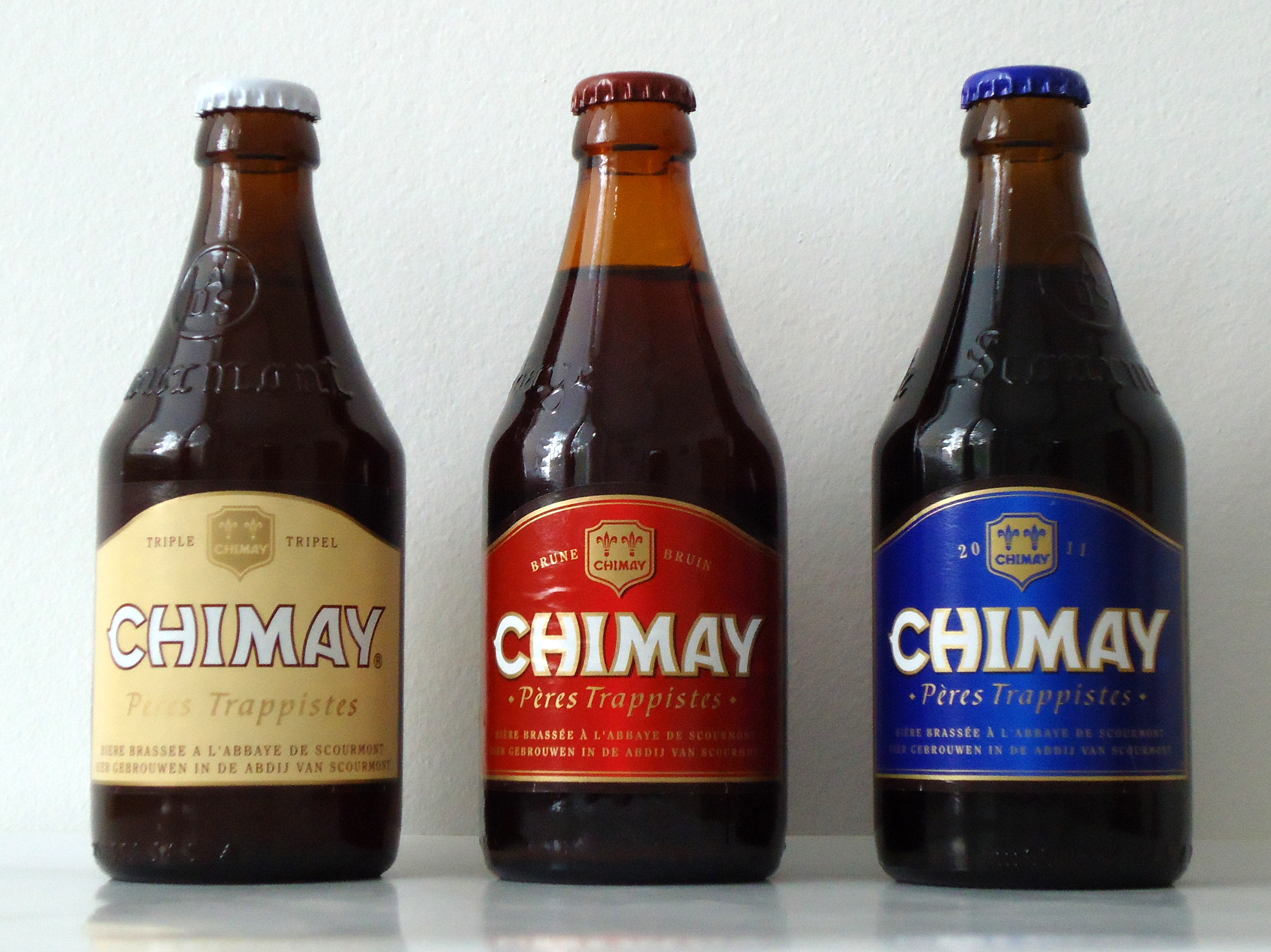 Chimay 3 beers